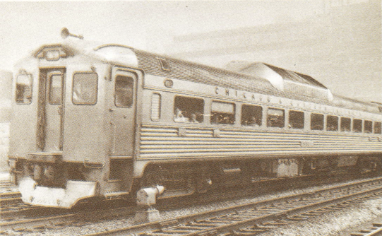 The Chicago and Eastern Illinois Railroad's sole Budd Rail Diesel Car.